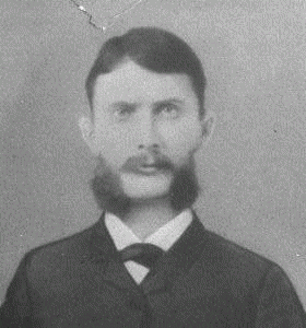 Image of Joseph Castle Eversole shortly before his death in 1888